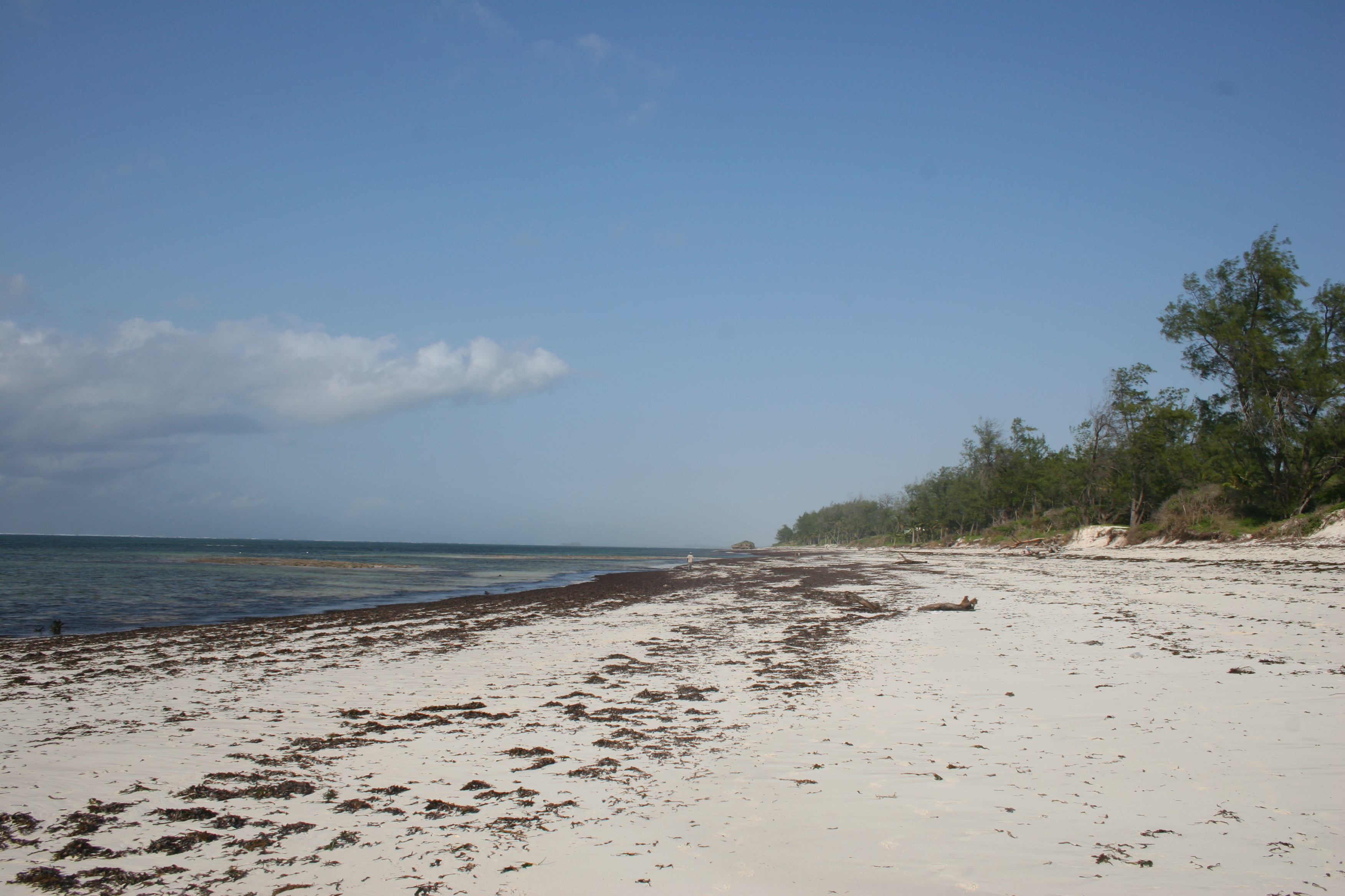 Watamu Beach near Turtle Bay Club. Kenya. July, 2010